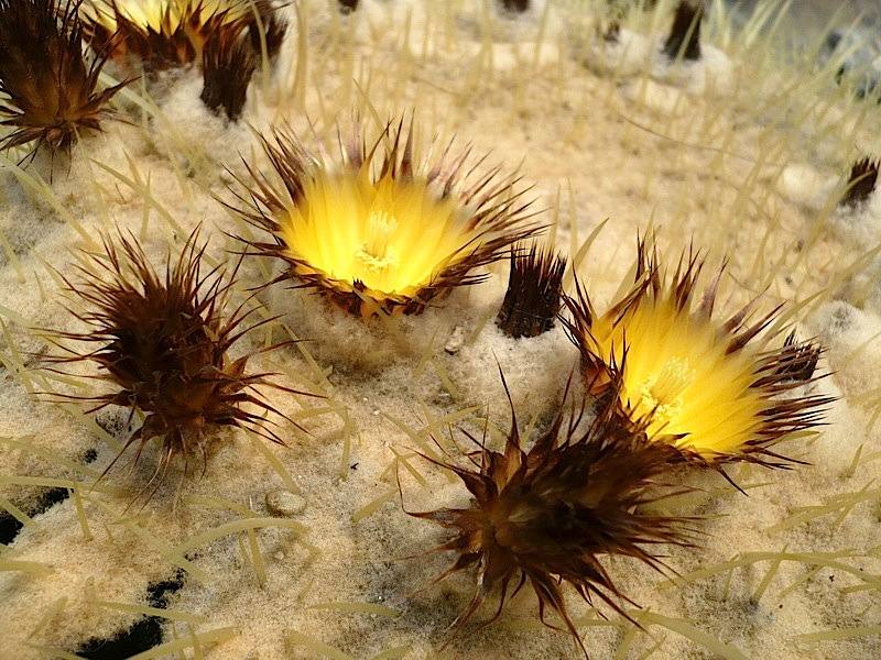 Flower of Echinocactsu grusonii